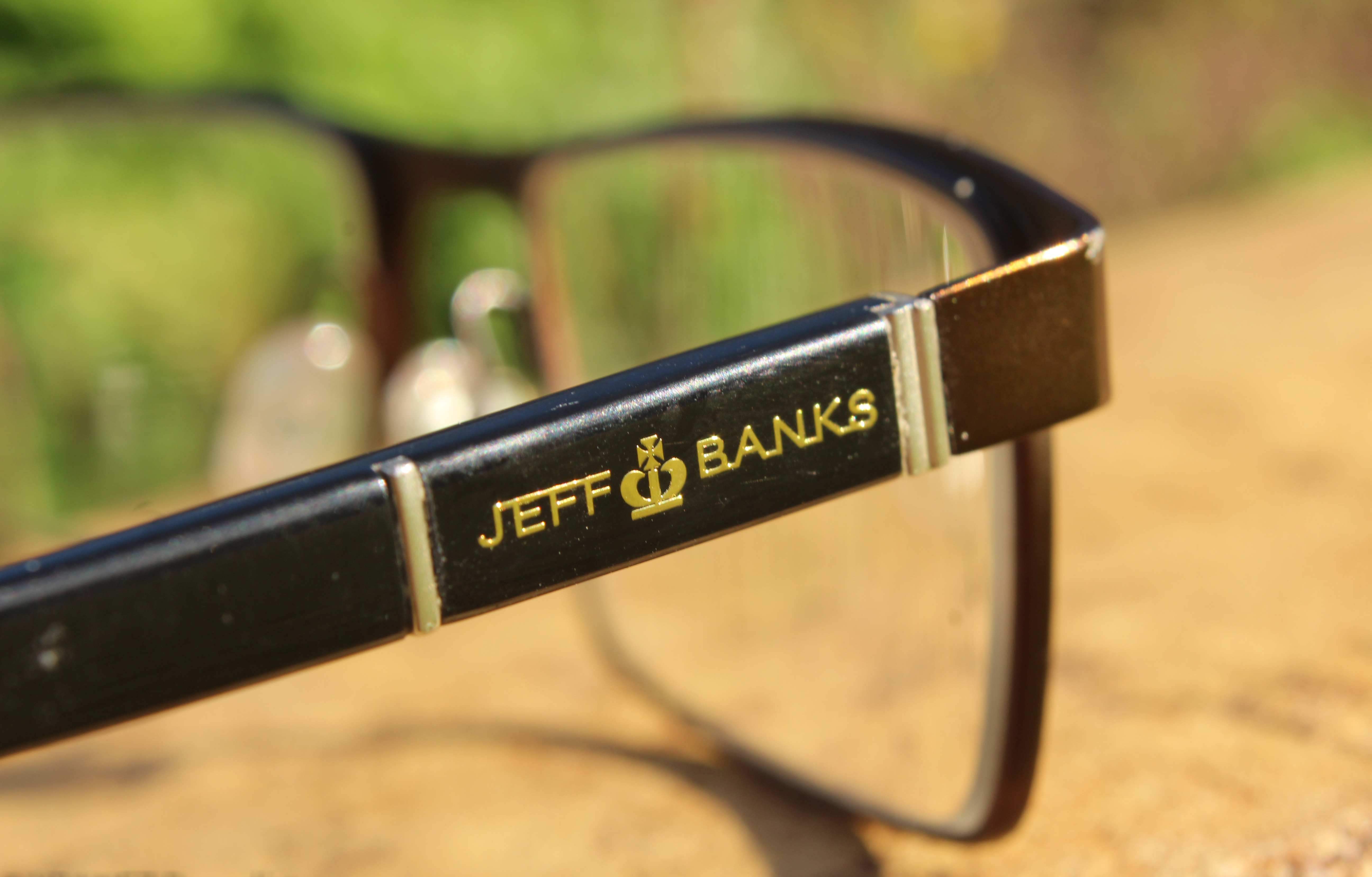 Photo taken on 19/06/2020 by Benedict Ybanez (User:Benedict2005)